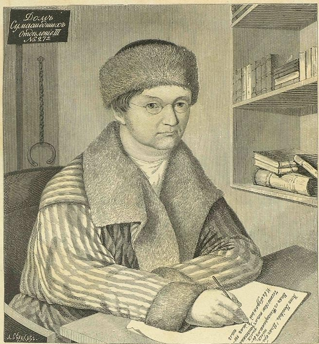 Voeikov Alexandr Fedorovich